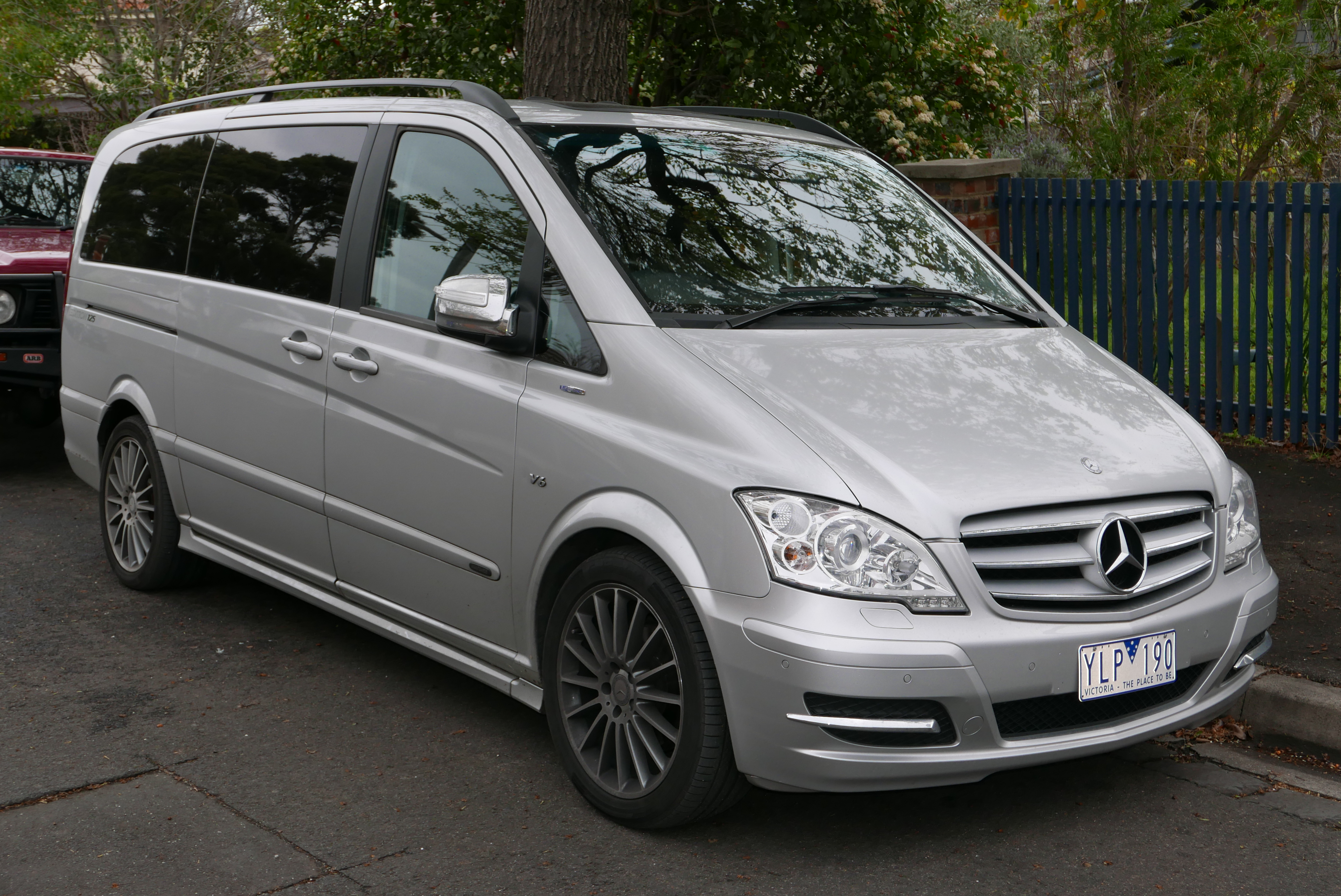 2011 Mercedes-Benz Viano (V 639 MY12) Edition 125 CDI 3.0 BlueEFFICIENCY van. Photographed in Hawthorn, Victoria, Australia. Vehicle registration enquiry results Jurisdiction Victoria Registration YLP190 Chassis code WDF63981323671112 Engine code 64289041158079 Compliance date 2011-09 Year of manufacture 2011